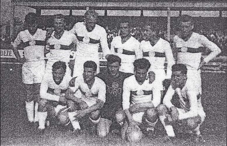 Dorog has been won over Selection team of Bratislava as visitor in international match.